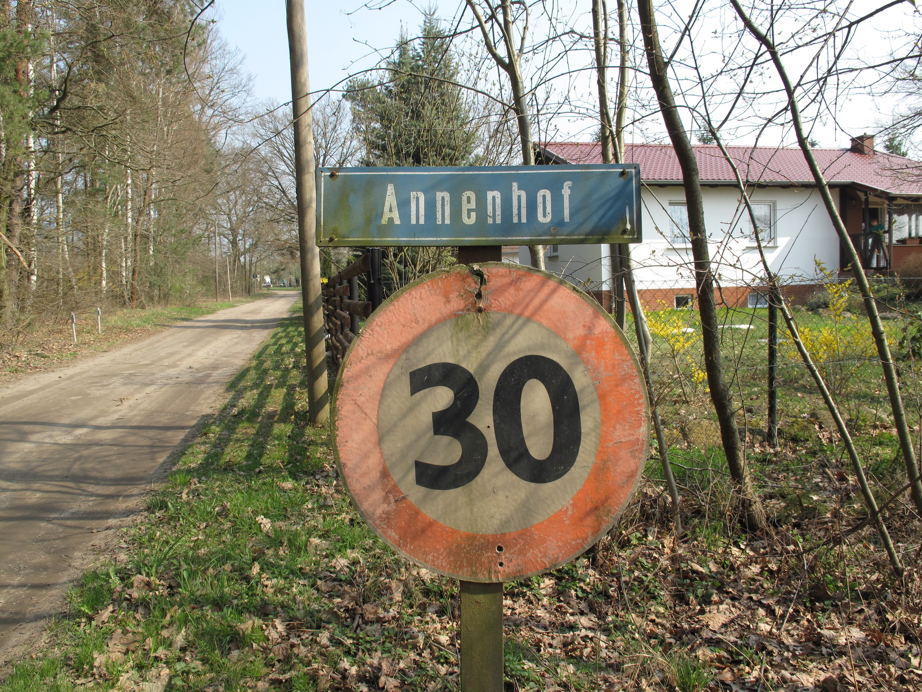 Annenhof is a part (settlement, estate; german: Wohnplatz) of Bad Saarow, District Oder-Spree, Brandenburg, Germany. The former folwark of the manor Pieskow was first mentioned in 1844 and is situated approximately 3 kilometers east of the Scharmützelsee.